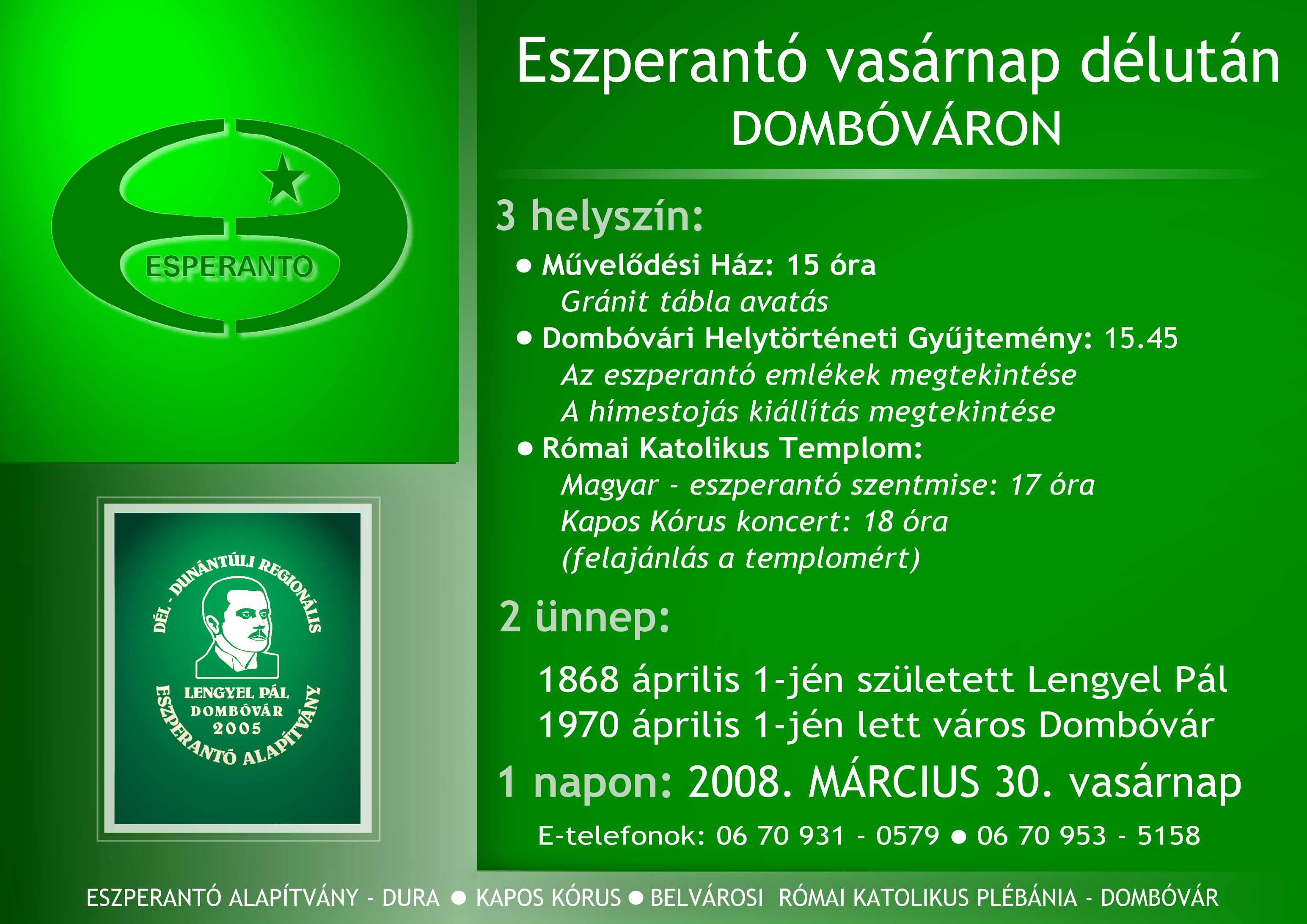 Esperanto poster in Dombóvár, Hungary